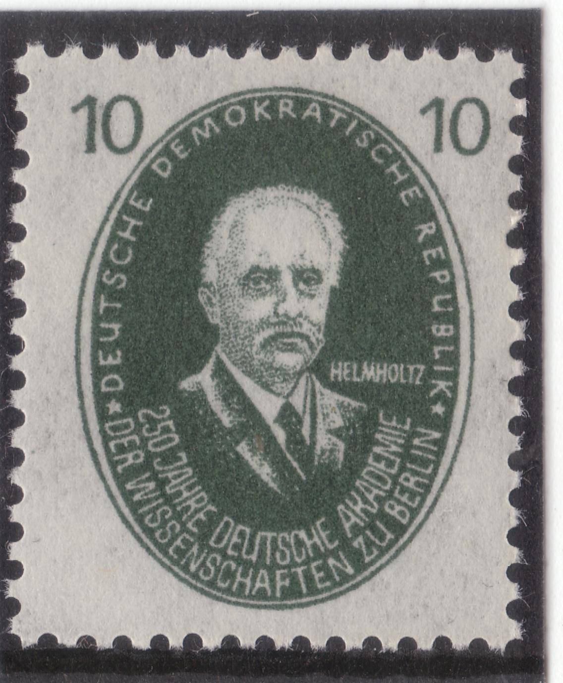 250th anniversary of the German academy of sciences in Berlin Graphic designer: Gerhard Kreische Ausgabepreis: 10 Pf First Day of Issue / Erstausgabetag: 10. Juli 1950 Michel-Katalog-Nr: 265